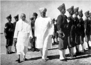 Sardar Patel with the Maharajah of Mysore during his visit to the State.